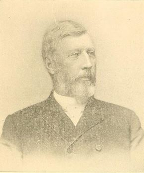 Alexander Stewart (American politician)